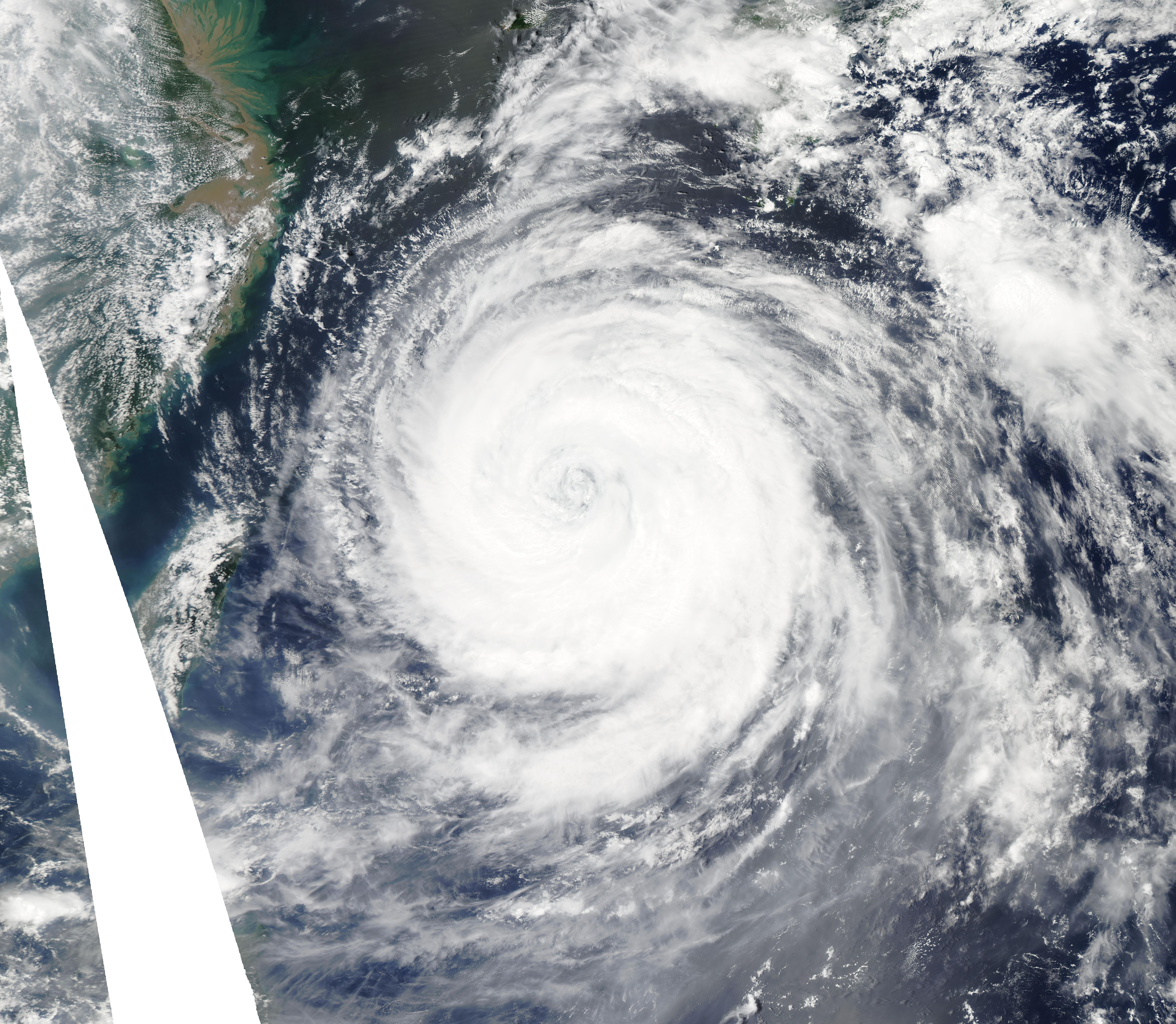 Typhoon Muifa on August 5, 2011, south of Japan